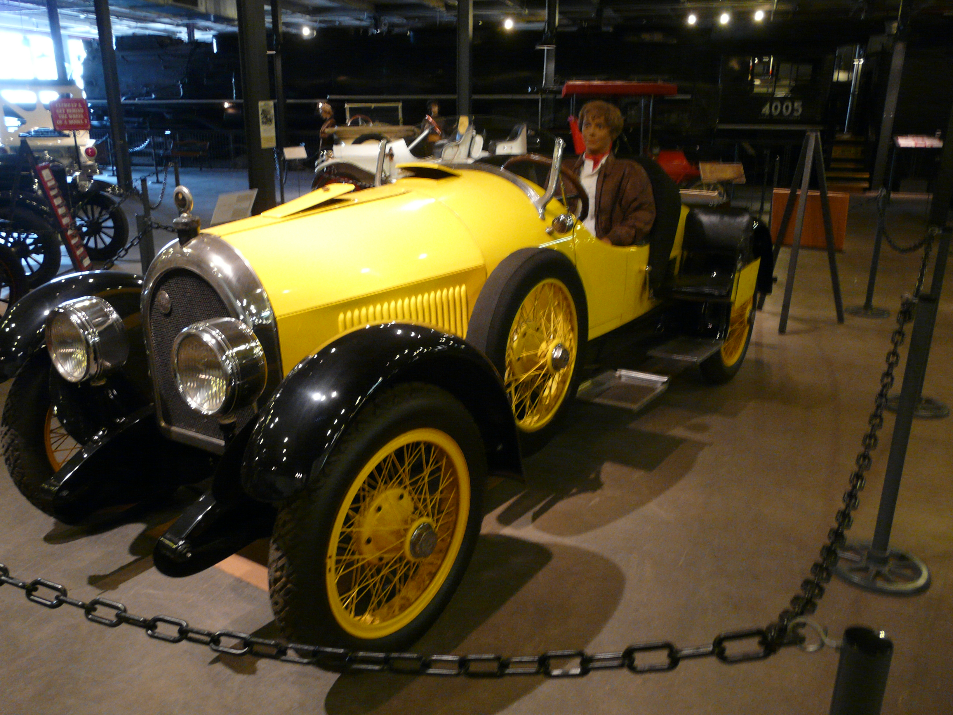 1923 Kissel speedster model 45 Goldbug Denver, summer 2012